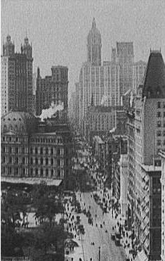 Broadway 1909 Old Post Office, and Park Row Building